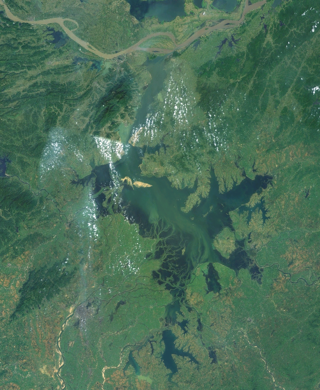 Satelites image of Lake Poyang